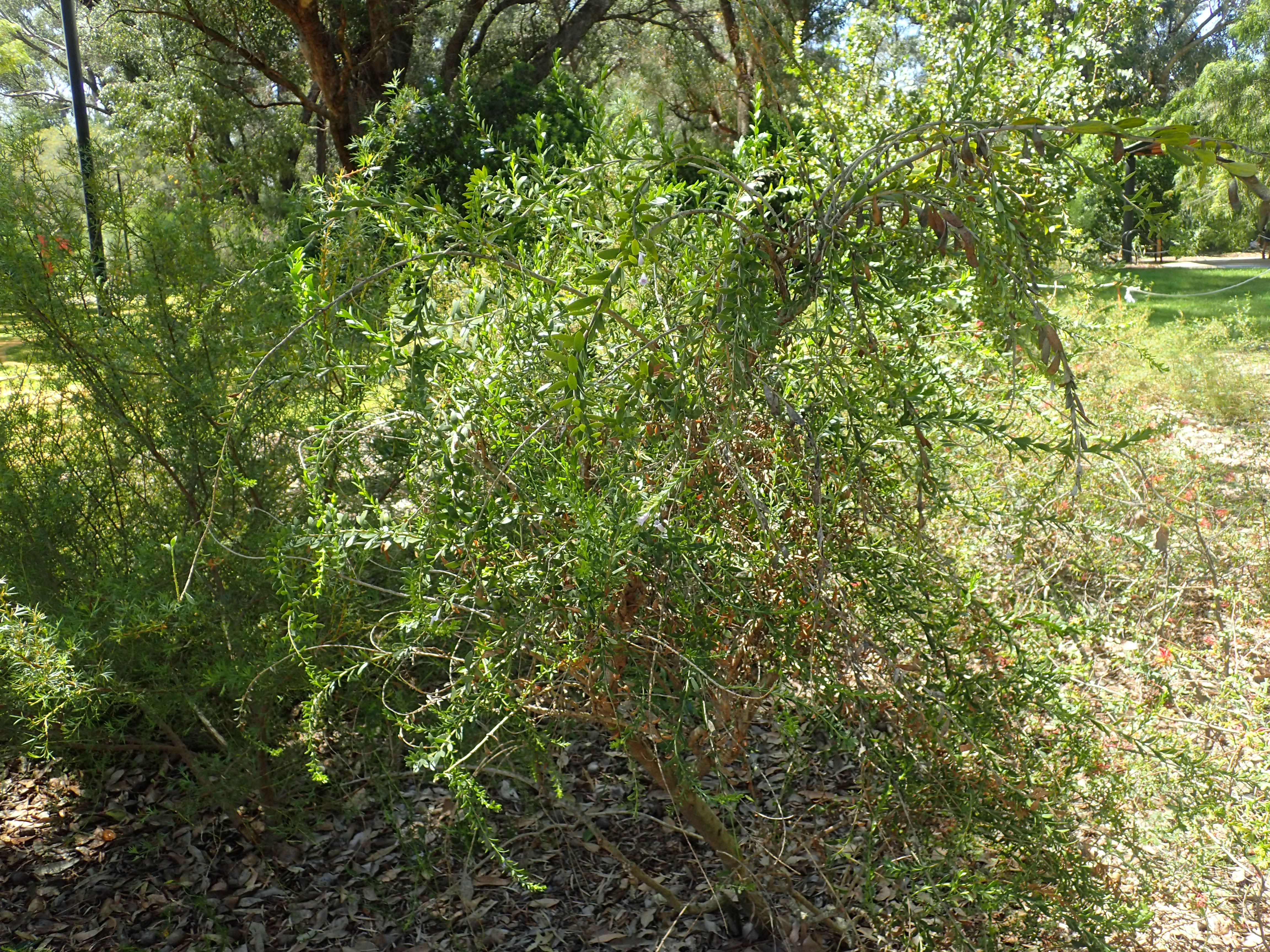 Eremophila lactea in Kings Park, Perth